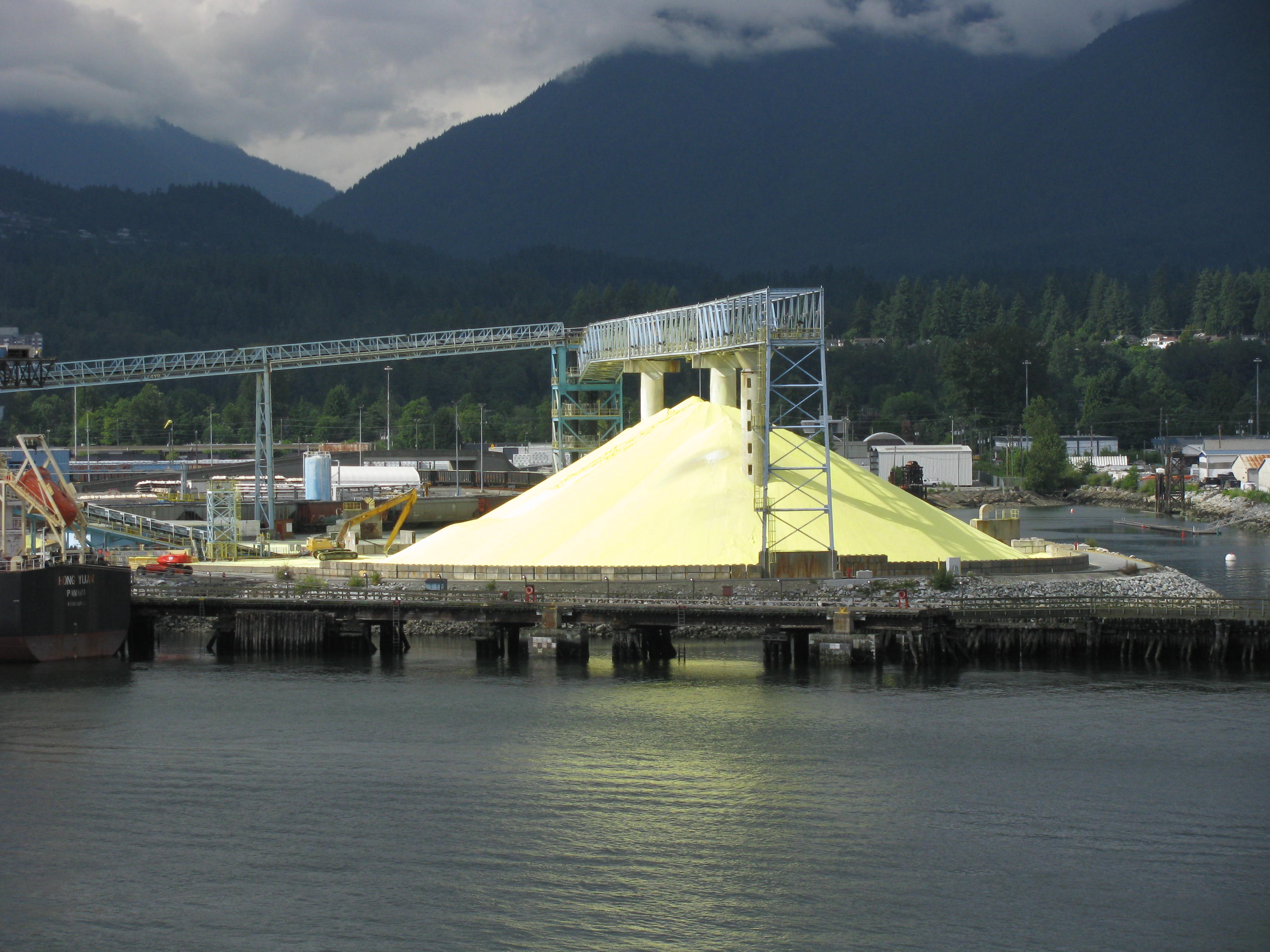 Sulfur loading at Kinder Morgan's Vancouver Wharves, North Vancouver, British Columbia, Canada.